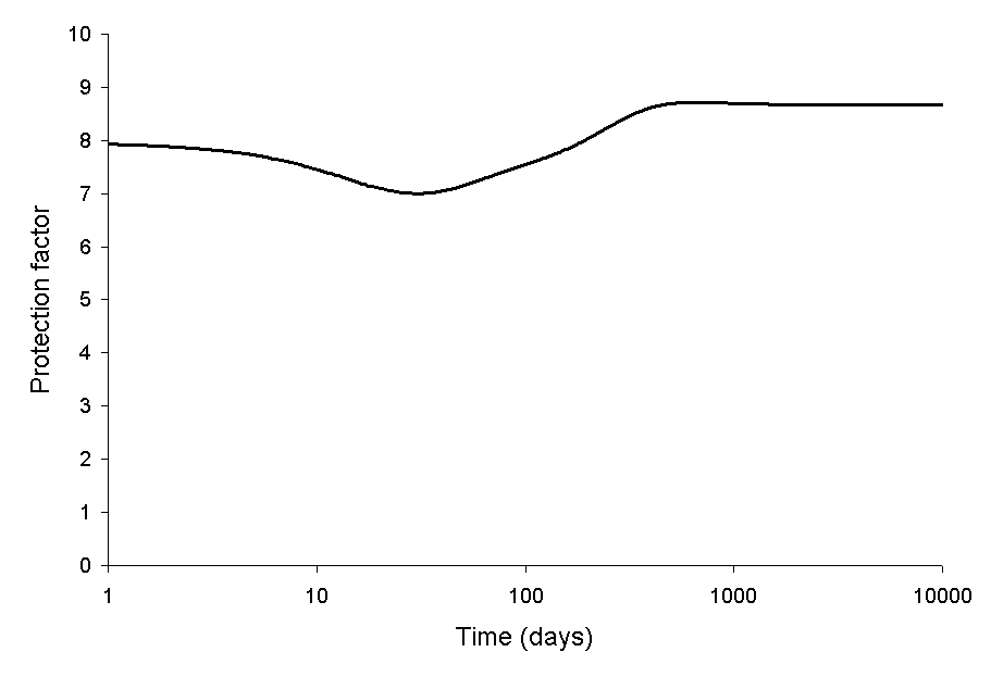 The protection factor provided by 10 cm of concrete sheilding where the source is the idealised Chernobyl fallout. Note that this image was drawn using data from the OECD report, [1], the second edition of 'The radiochemical manual' and 'Radiochemistry and Nuclear Chemistry'